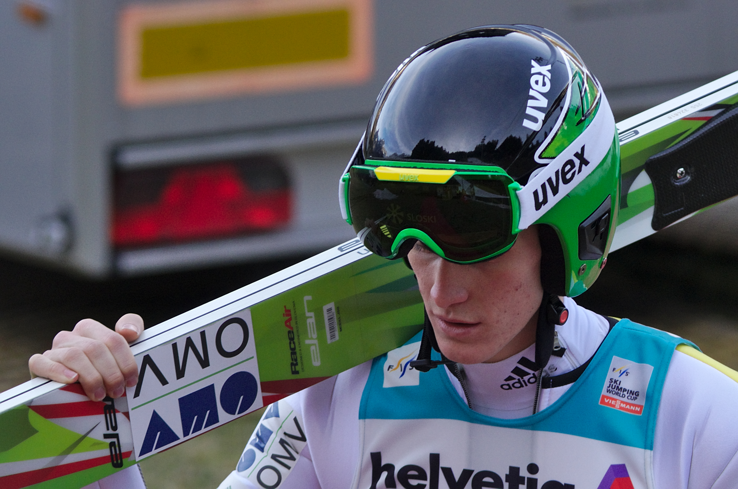 FIS Ski Jumping World Cup 2014 - Engelberg - 20141221 - Peter Prevc